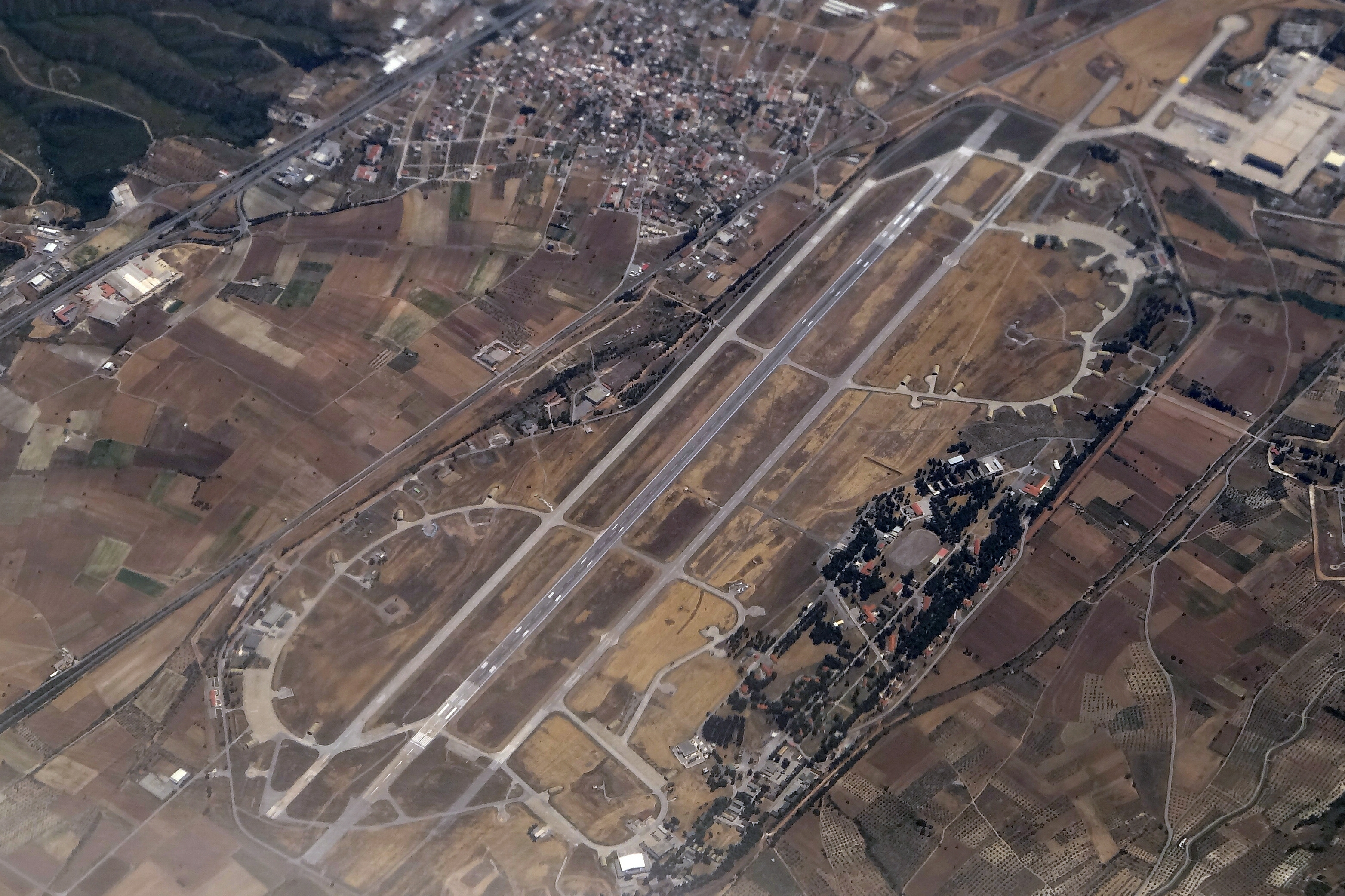 TANAGRA AFB AIRPORT LGTG FROM FLIGHT ATH-ARN 737 LN-RGA